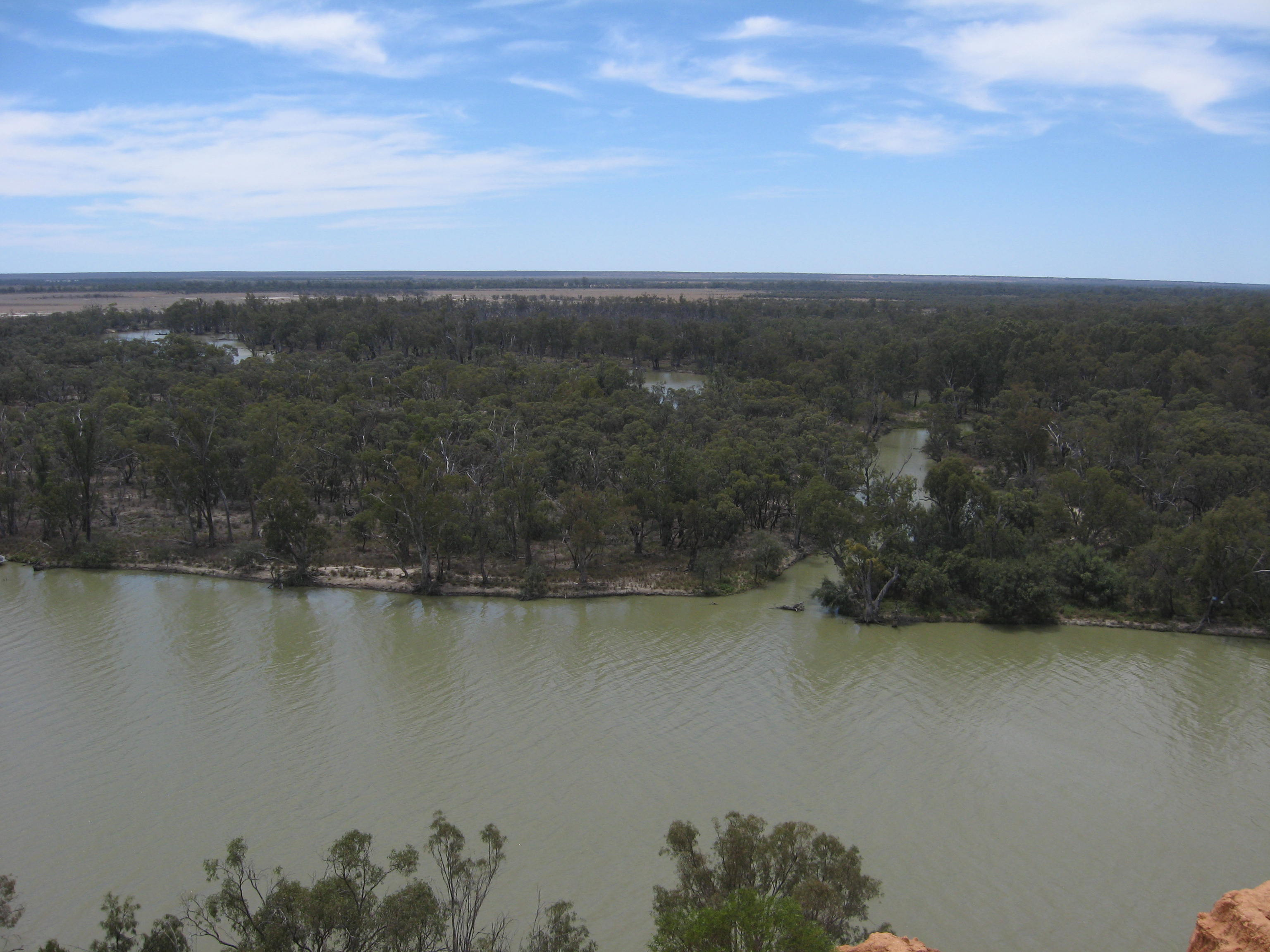 View from Headings Cliffs, overlooking Murray River and Chowilla floodplain, South Australia